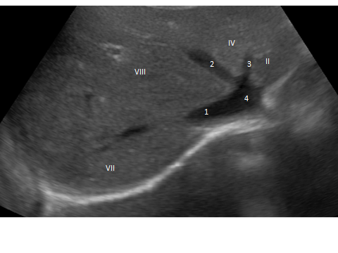 liver segments in ultrasound, based on Couinaud (II, IV, VIII, VI) 1: right hepatic vein; 2: intermediate hepatic vein; 3: left hepatic vein; 4: inferior vena cava